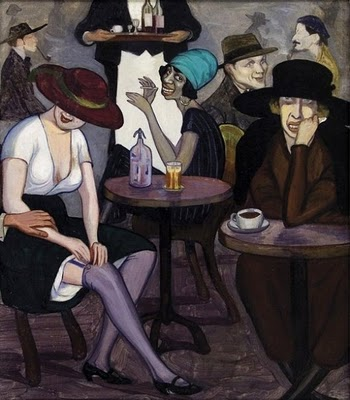 Shalva Kikodze, Artists' coffee-house in Paris, 1920